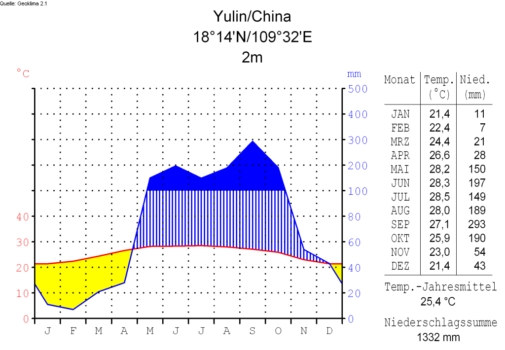 climate chart in the format by Walter and Lieth, metric, °Celsisus and millimeters, made with Geoklima 2.1